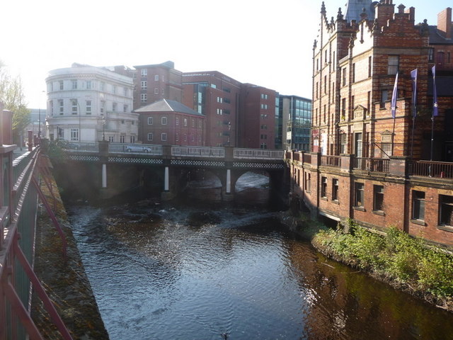 Sheffield: Lady's Bridge from Castlegate Looking upstream along the Don. See also 794299.